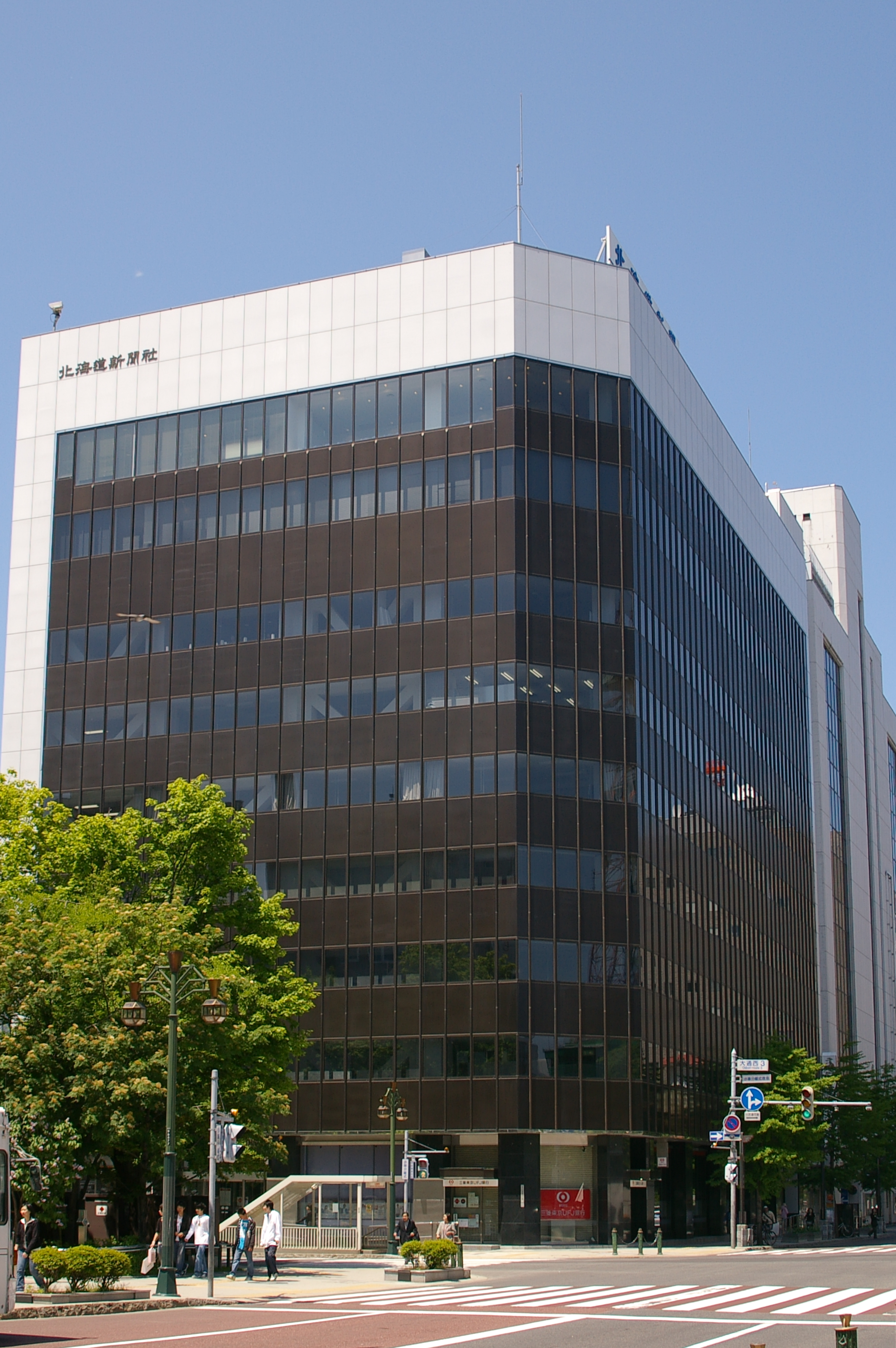 Photograph of the Odori site of Doshin Building, headquarters of the Hokkaido Shimbun Press, in Chuo-ku, Sapporo, Hokkaido, Japan.